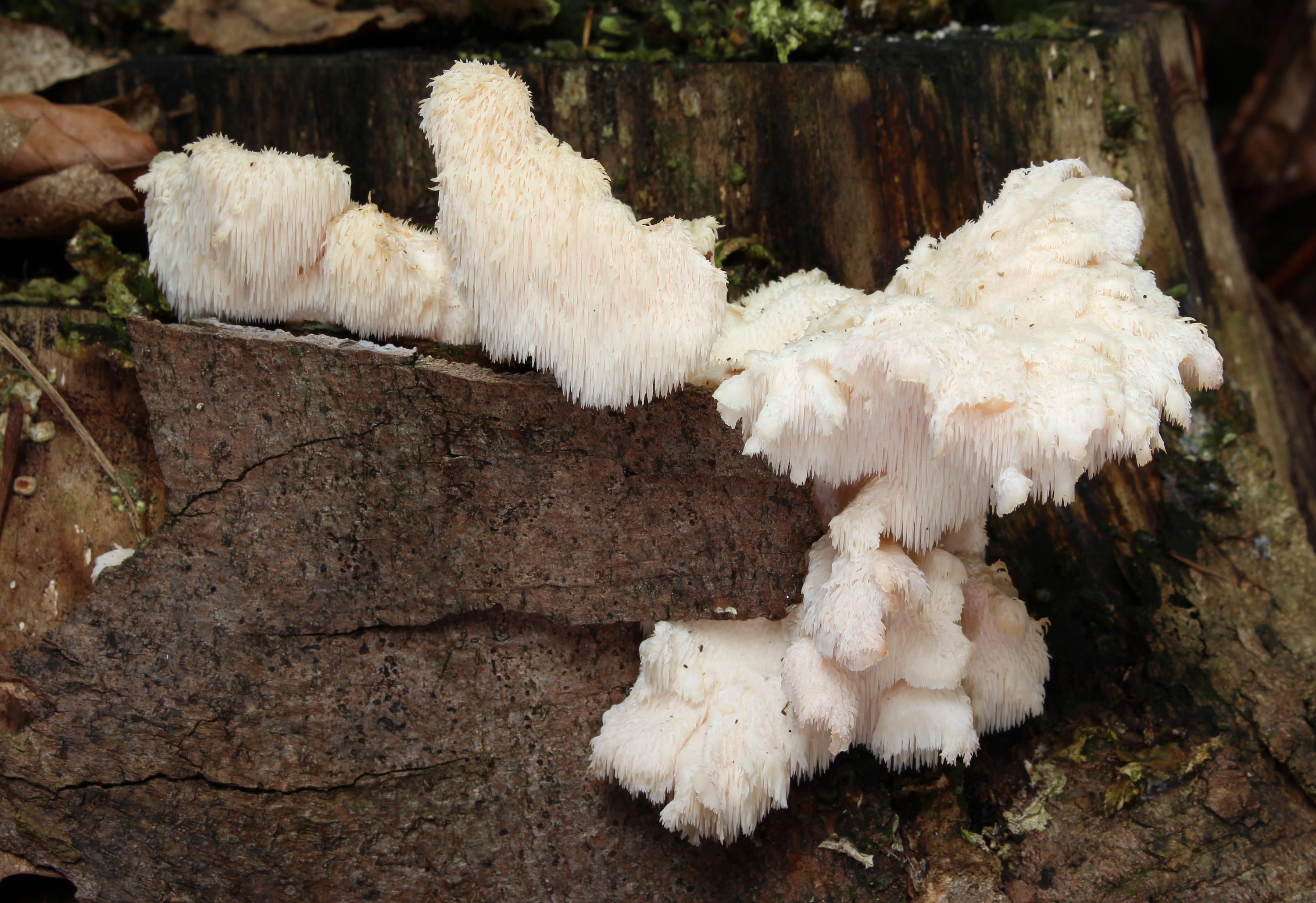 Hericium cirrhatum, Family: Hericiaceae, Location: Germany, Erbach, Ringingen. Rare species therefore only area geotagging